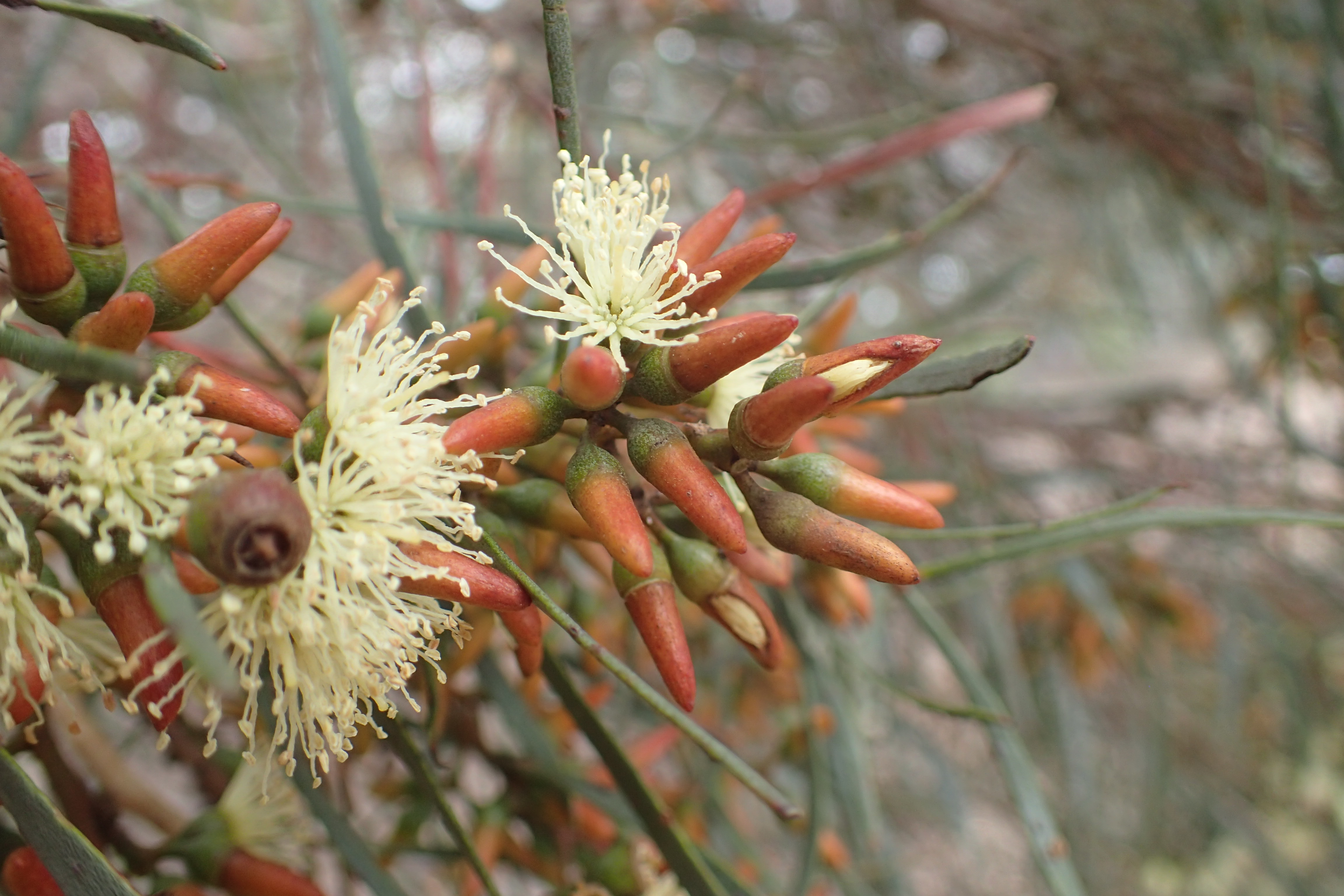 Flower buds and flowers of Eucalyptus spathulata in Helms Arboretum, north of Esperance, W.A.